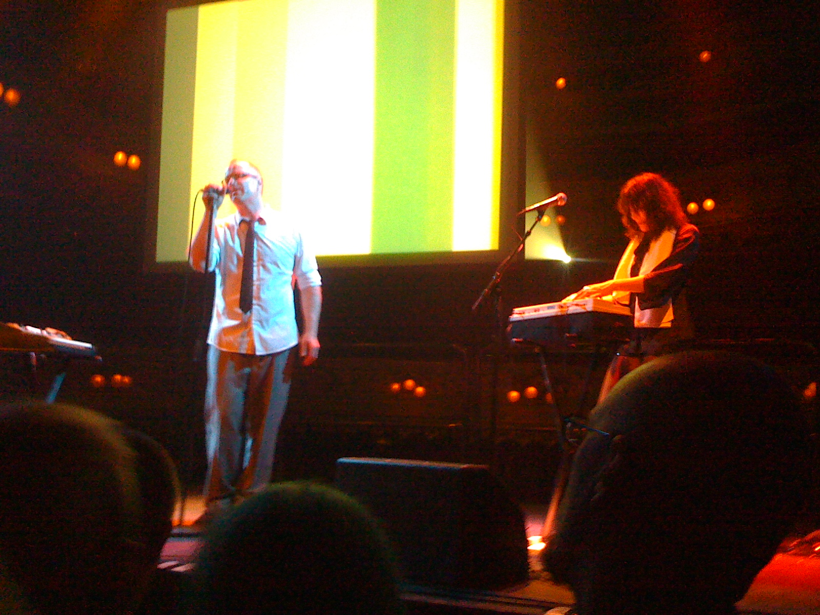 Page live at Storan Gothenburg 2010 05 08